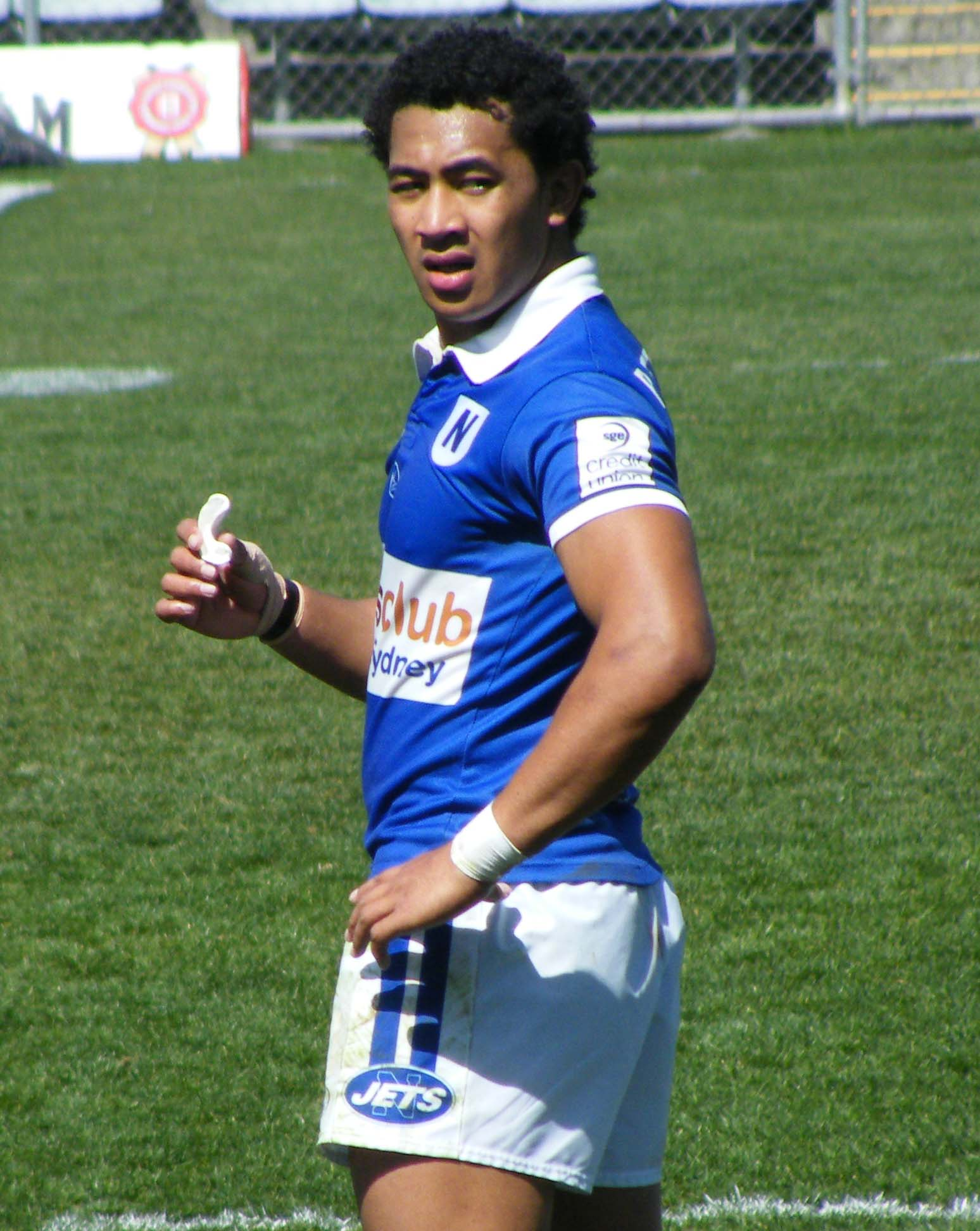 Newtown Centre Toshio Laiseni